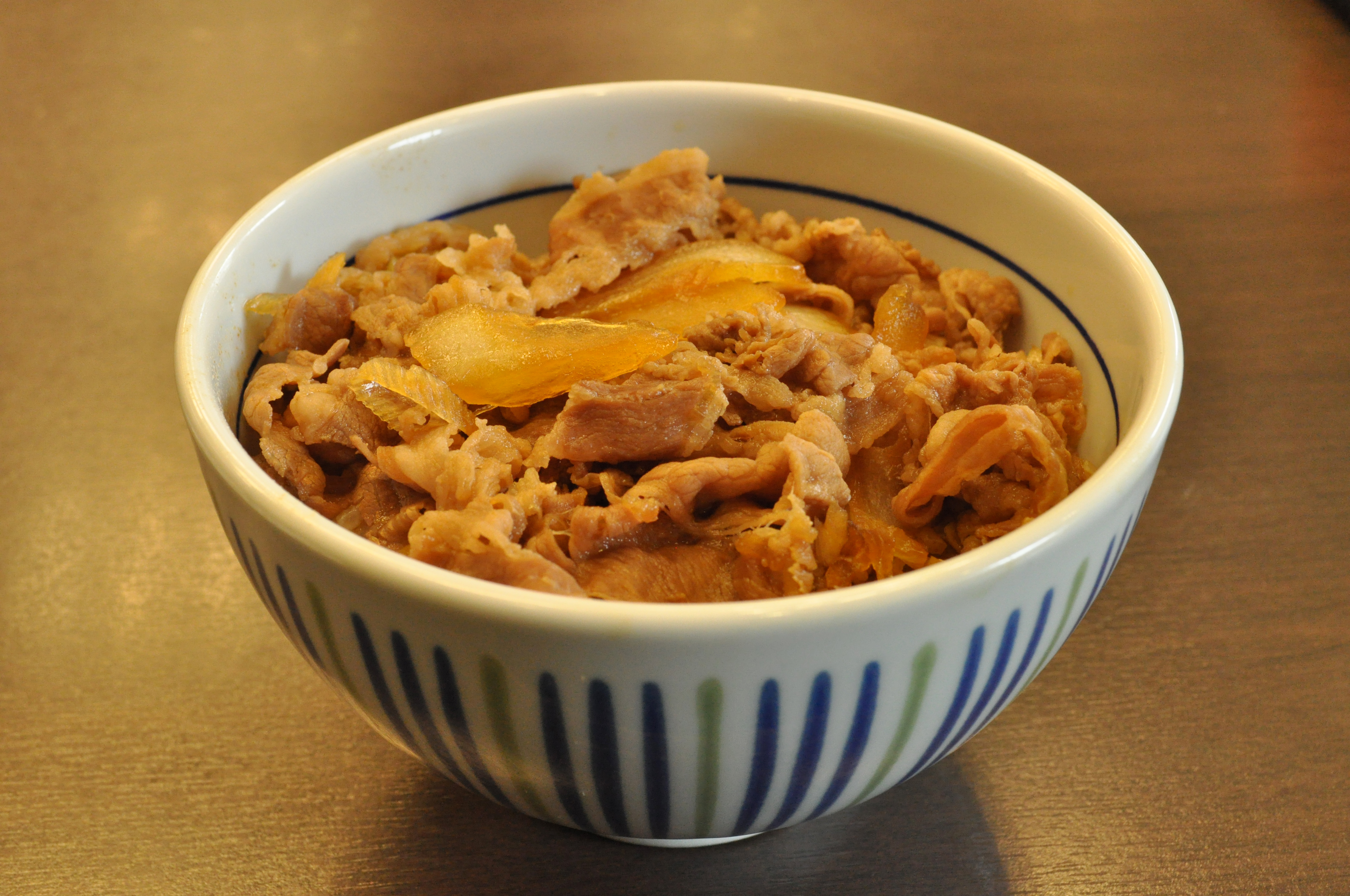 Nakau Beef Bowl, regular size.